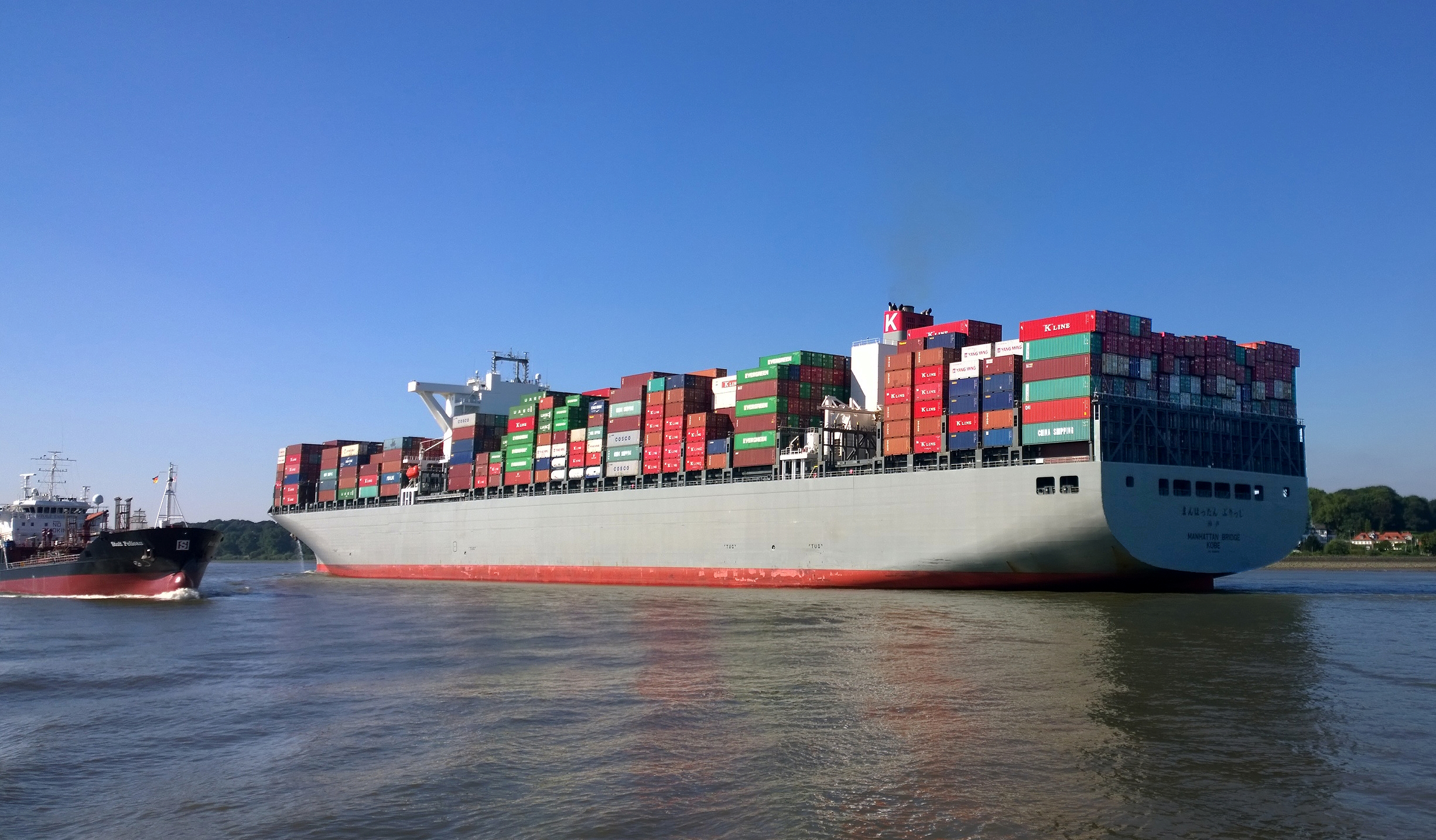 Container ship Manhattan Bridge from the port of Hamburg coming, the river Elbe down